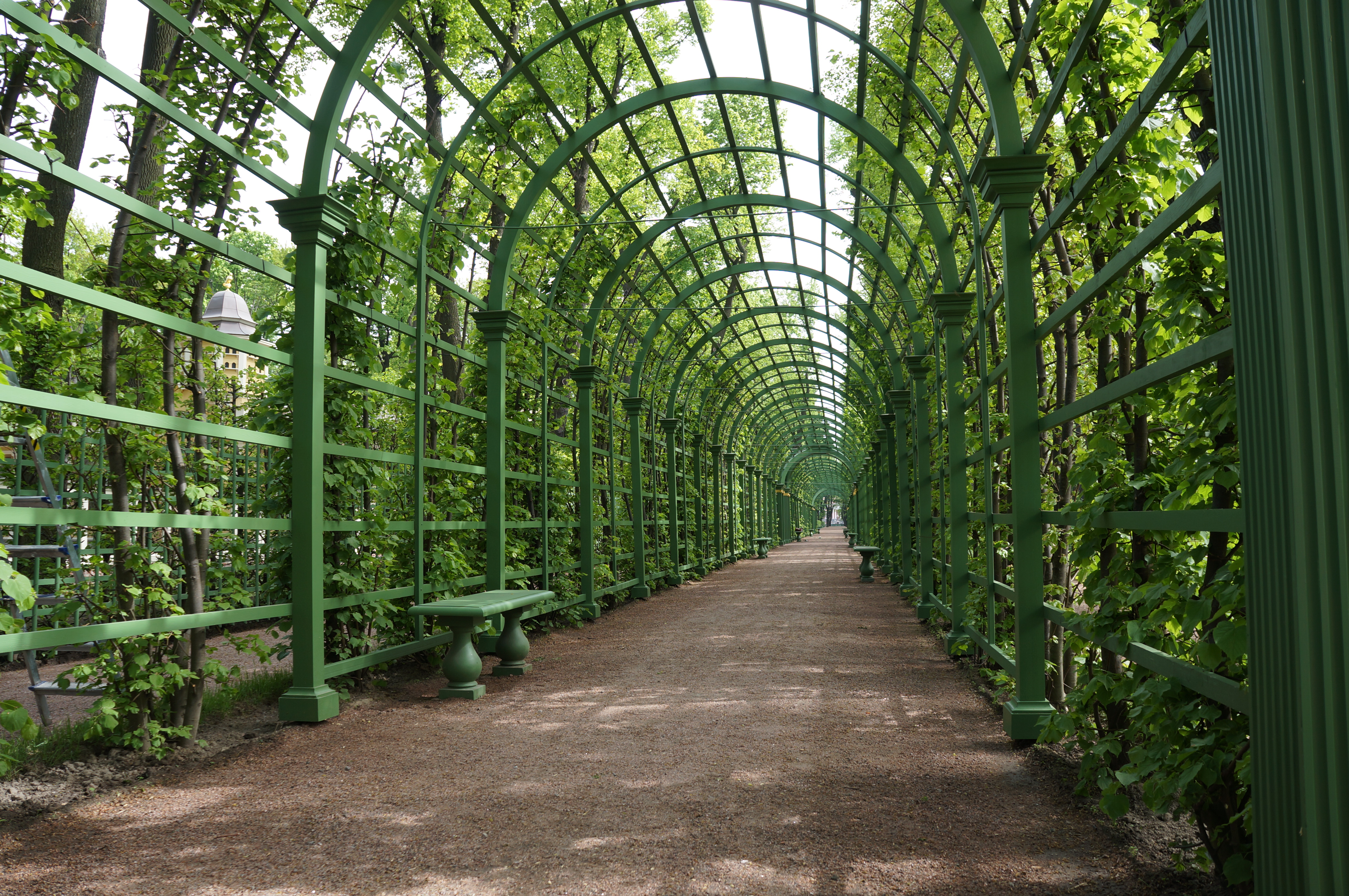 Летний сад. Берсо. 2012 г.